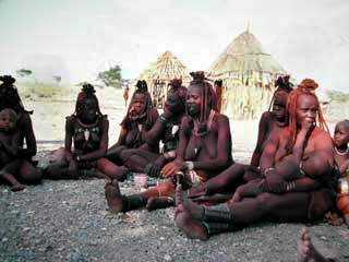 Picture of a group of Himba women, near Opuwo, Namibia.